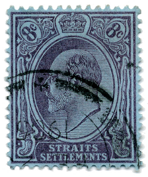 Straits Settlements 8c stamp of 1904, purple on blue paper. SG131.